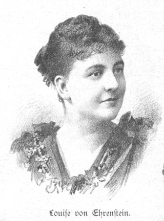 Portrait of Louise von Ehrenstein (1867-1944), Austrian opera singer